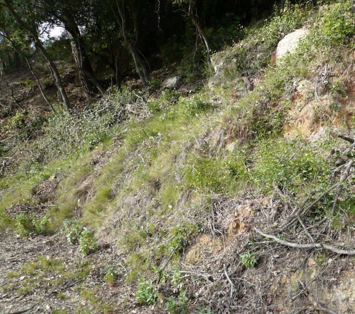 Bracypodium retusum in Serra de Collserola, near Can Sauró, Barcelona, Catalonia. I made the photo on january 21st 2007.